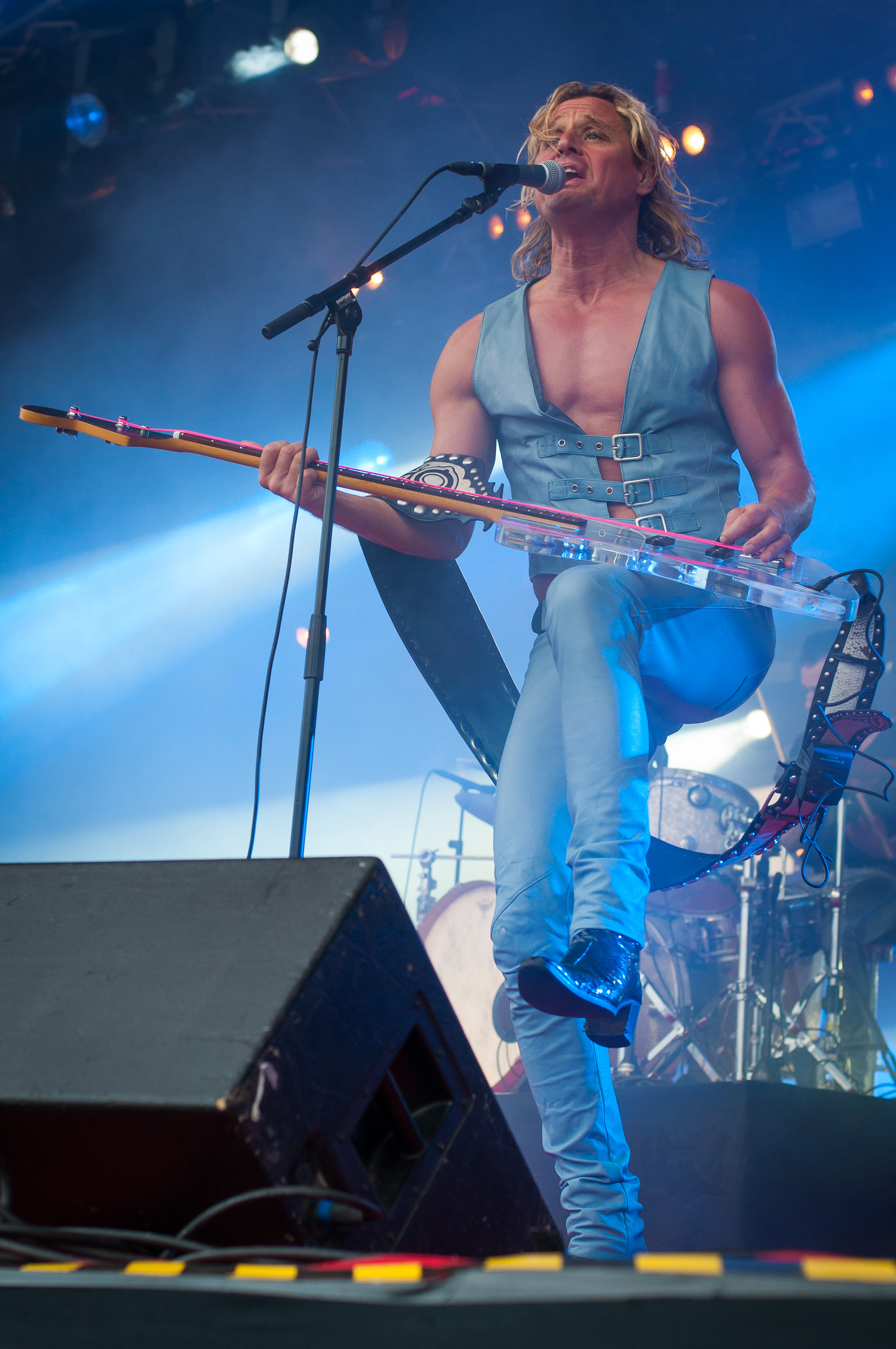 Danish bassist Stig Pedersen of D-A-D performing at the 2012 Ilosaarirock festival in Joensuu, Finland.